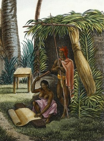 A depiction by Alphonse Pellion, the artist who accompanied French explorer Louis de Freycinet to the Sandwich Islands (now the Hawaiian Islands) on board the Uranie, of the esteemed Prime Minister Kalanimoku standing in the doorway of one of his houses in the company of his wife Likelike, shown with her right arm raised and about to strike a sheet of kapa. In the foreground is an Olo board, the largest of the Hawaiian wood surfboards. Reserved for royalty, they ranged in size from 1.8 to 8 meters.